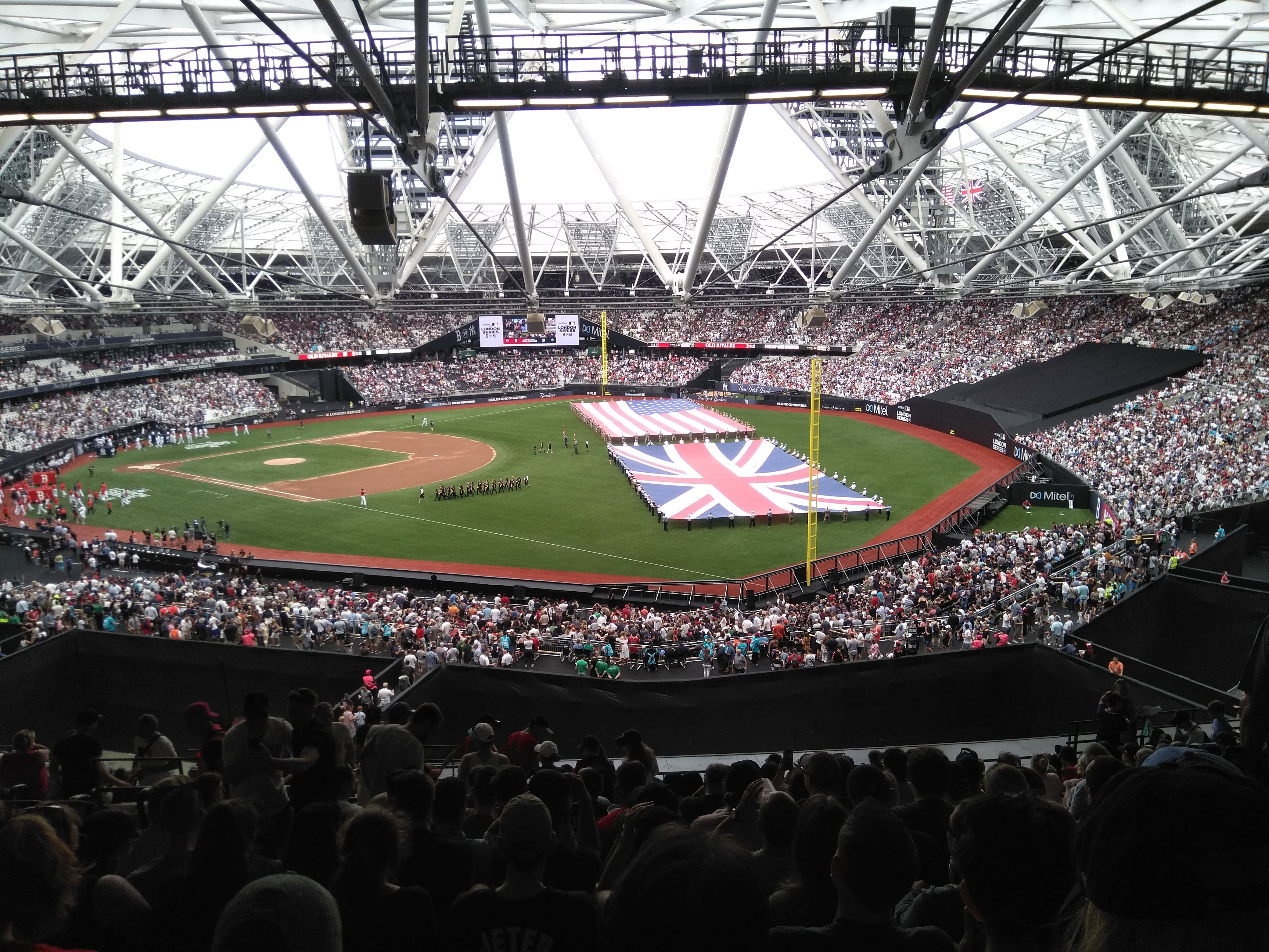 Pre-game at Game 2 of the 2019 MLB London Series between the Boston Red Sox and New York Yankees